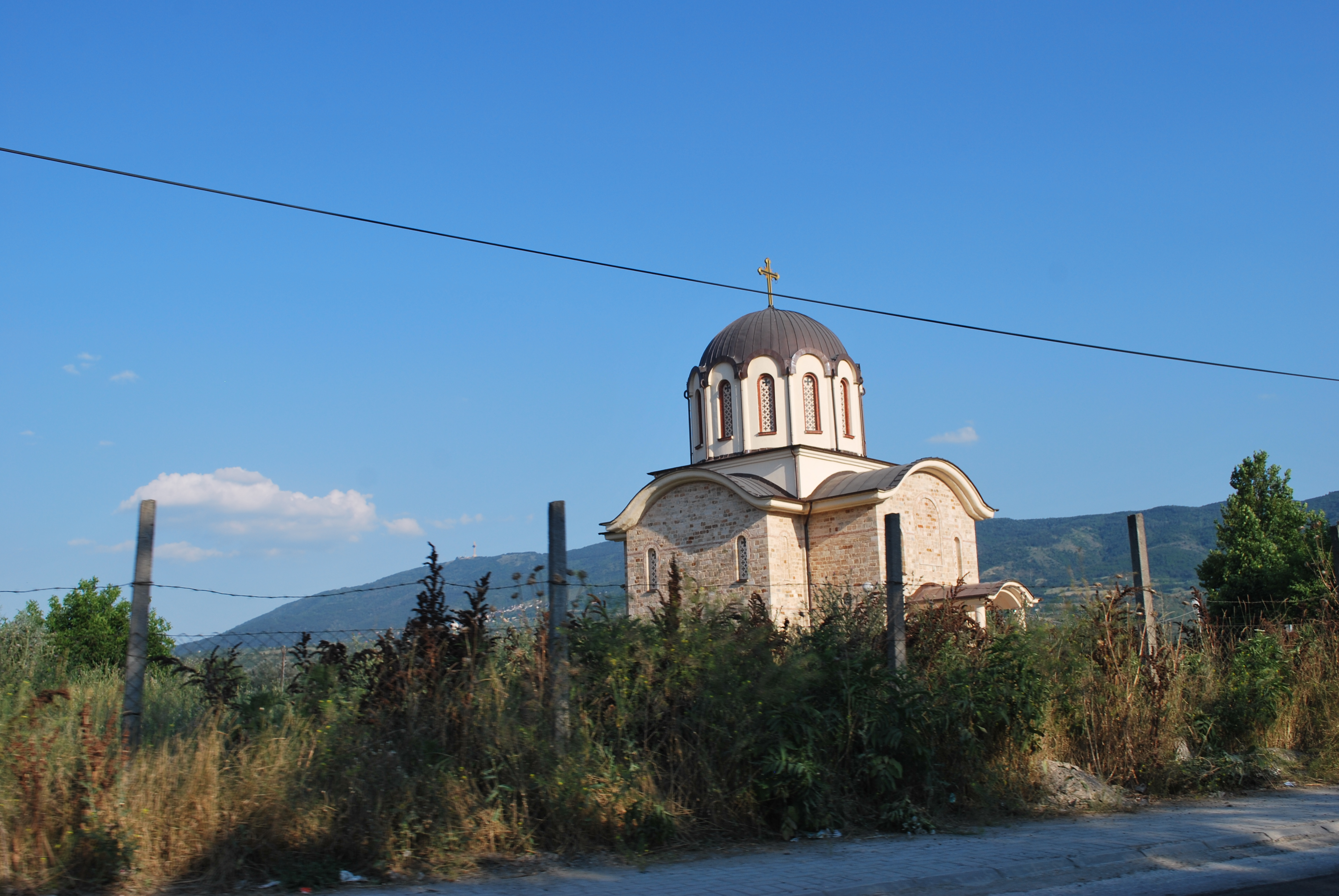 Church of St. Zlata of Meglen in the village of Saraj, Macedonia.